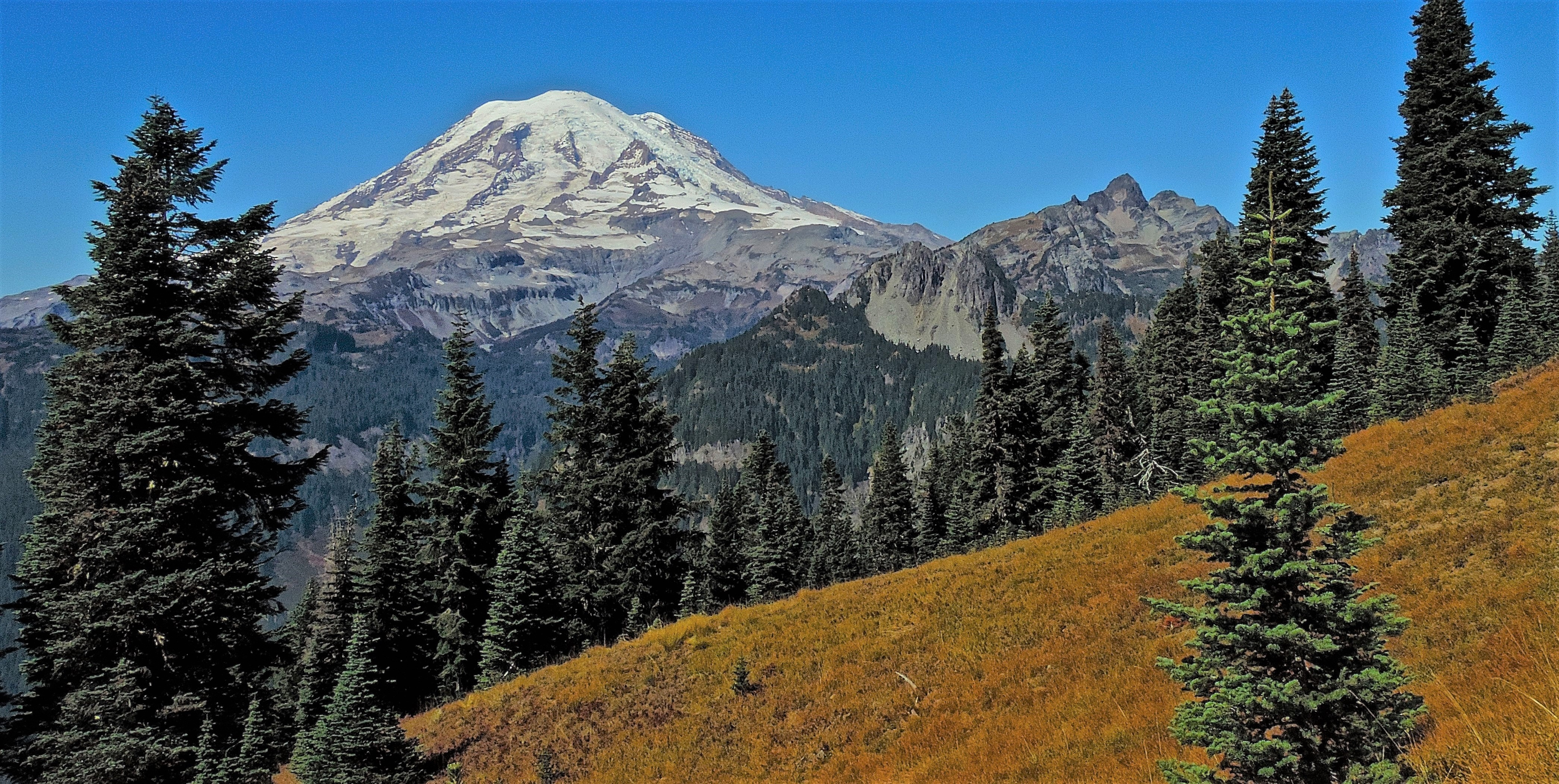 Mt Rainier, Double Peak, Cowlitz Chimneys from Shriner Peak.